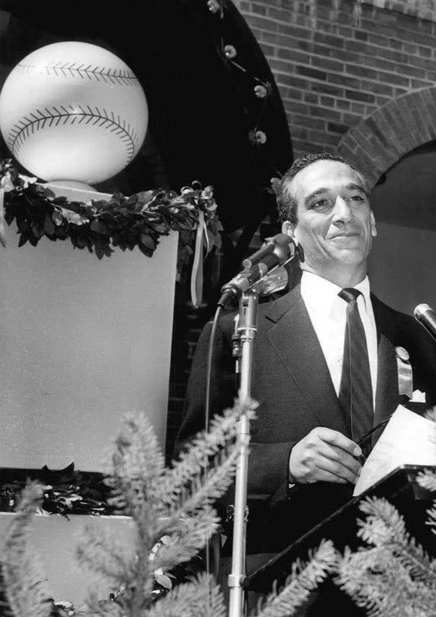 Photo of sports journalist Shirley Povich as master of ceremonies at a Cooperstown, New York ceremony.